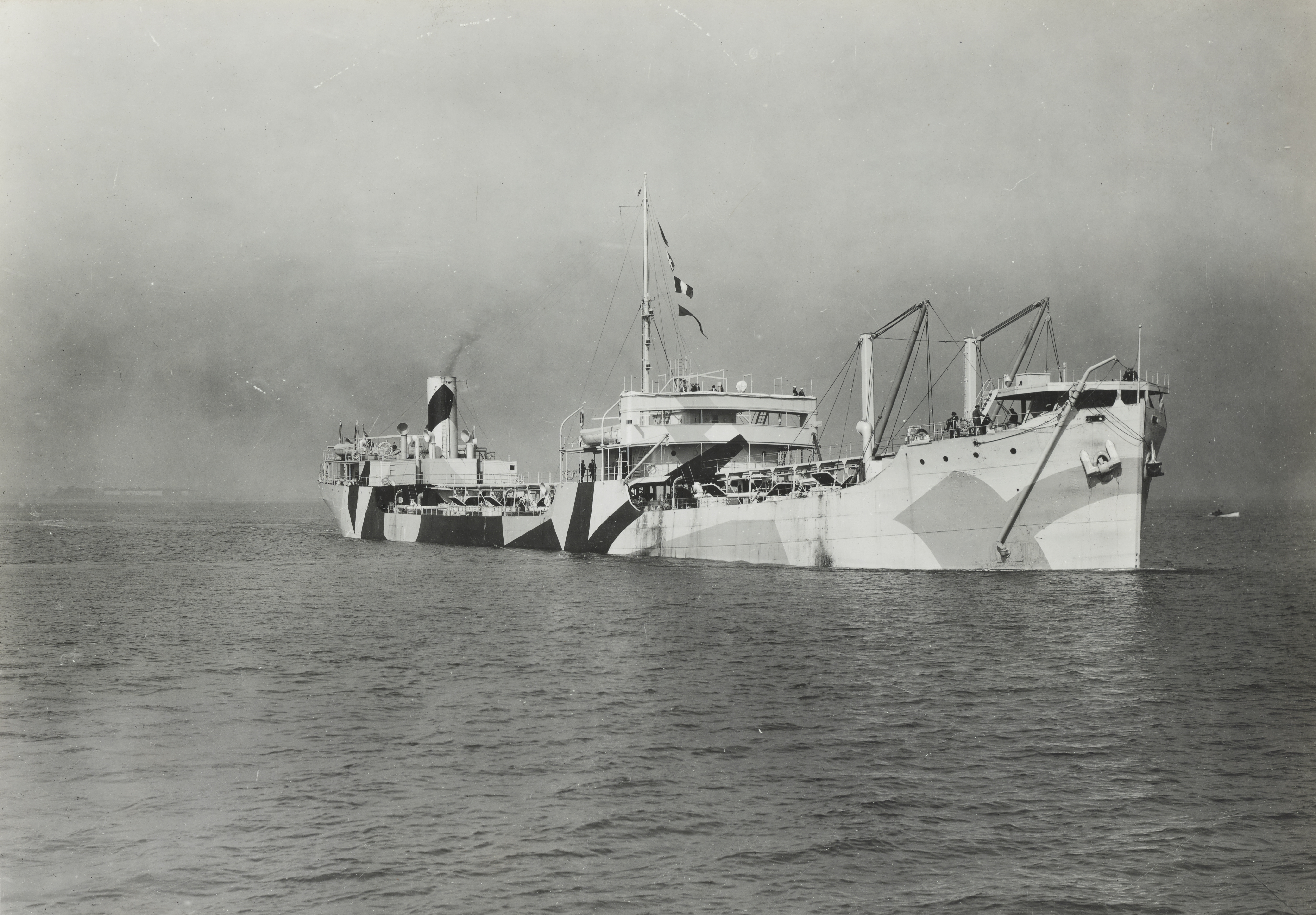 Scope and content: Photographer: U.S. Shipping Board